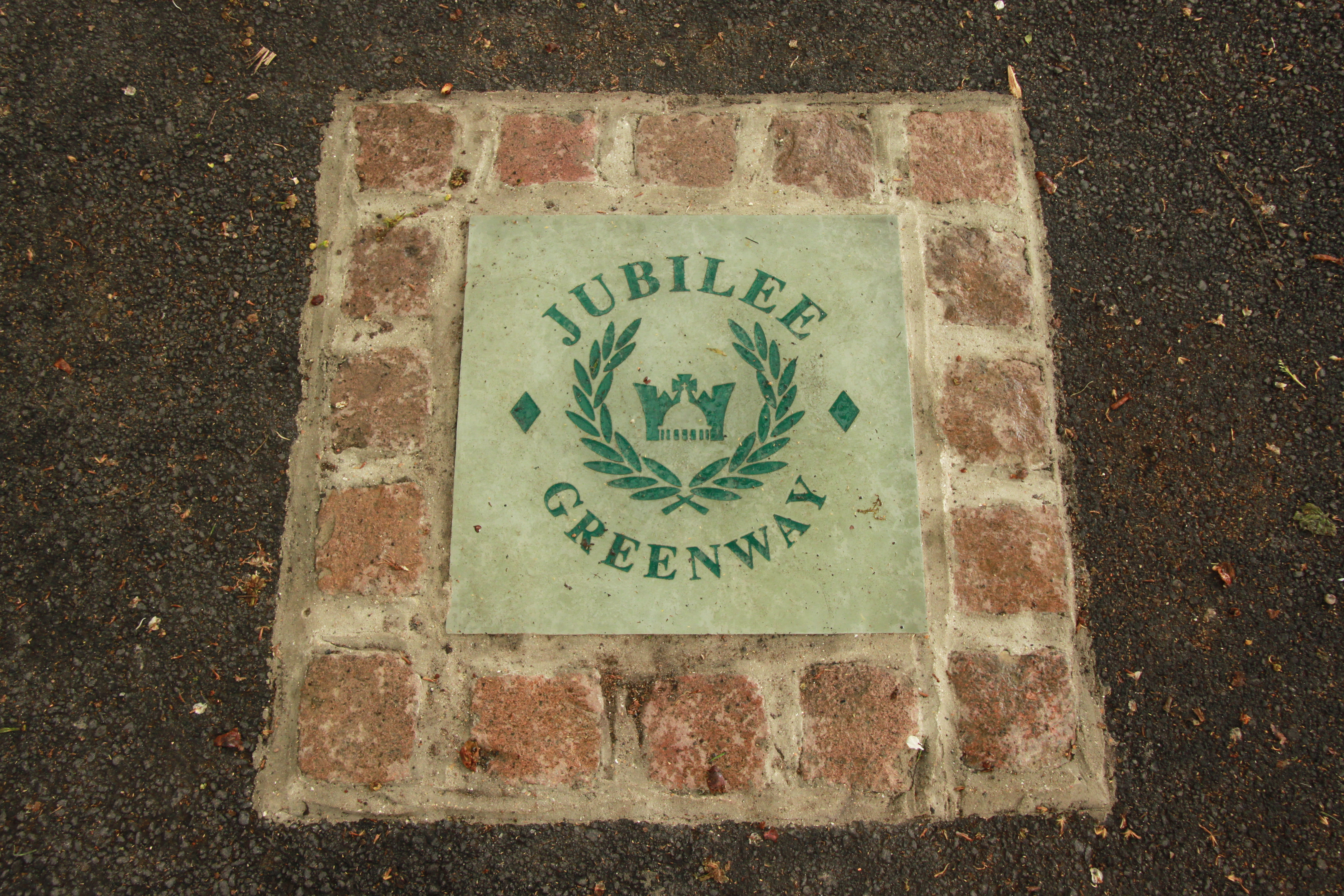 London - April 2012